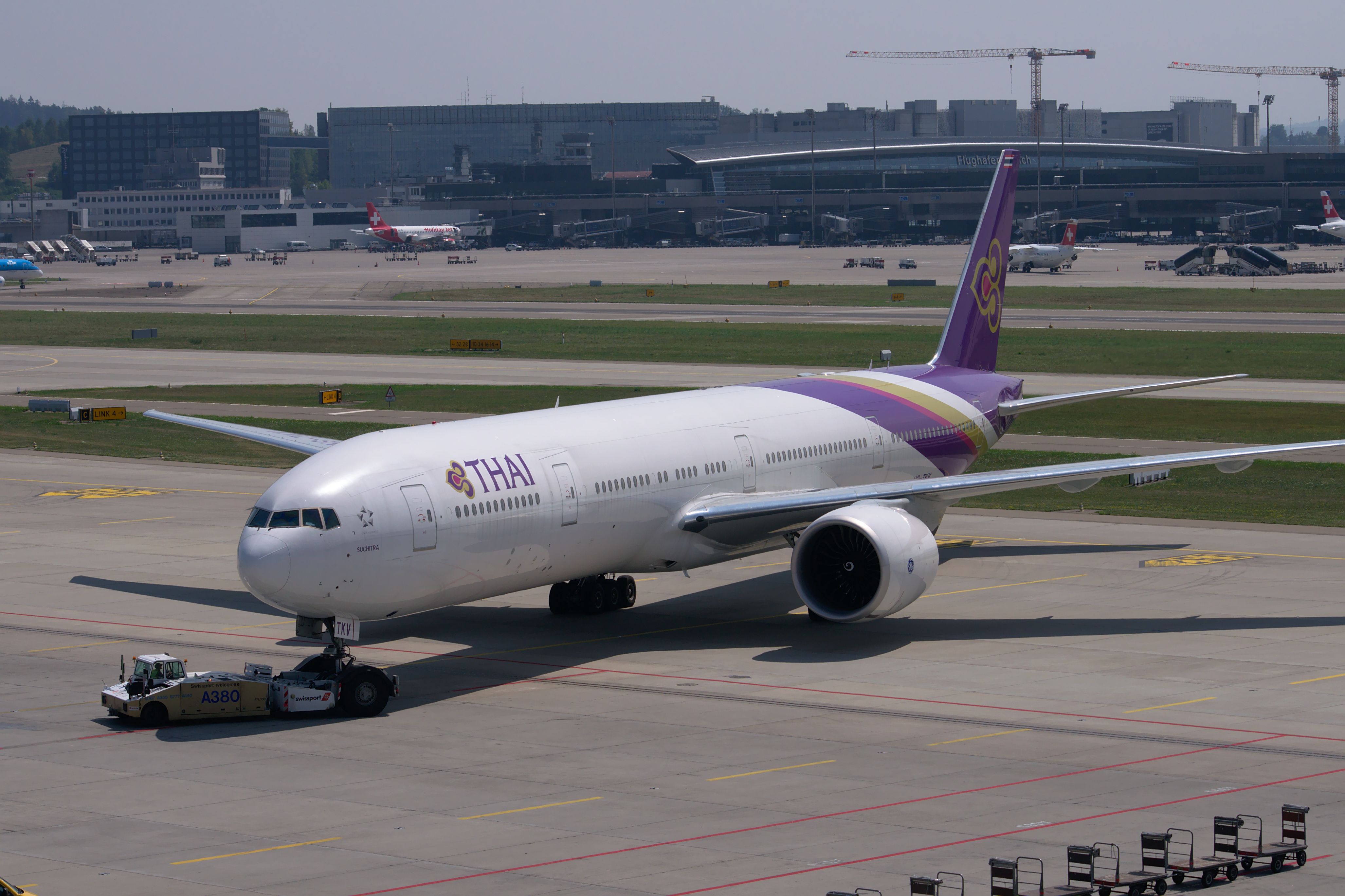 Zürich airport (ZRH).